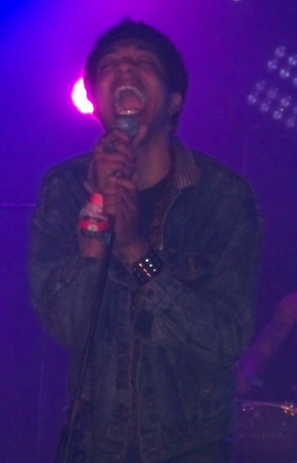 Cerebral Ballzy